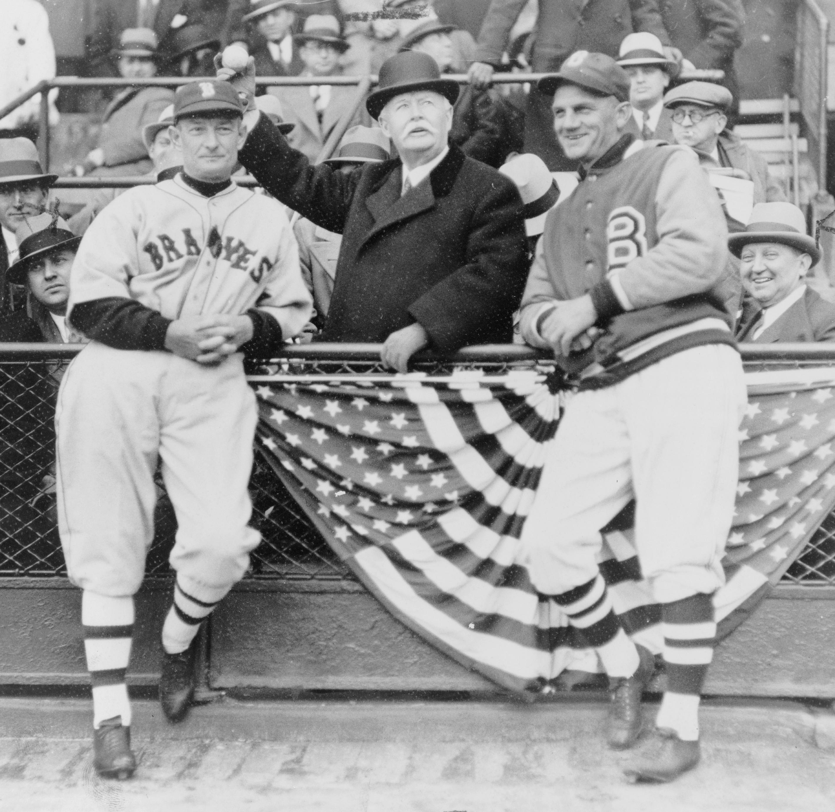 Brooklyn political boss John H. McCooey, flanked by Boston Braves manager Bill McKechnie and Dodgers manager Max Carey, throws out first baseball of Brooklyn's 1932 season / by World-Telegram staff photographer.